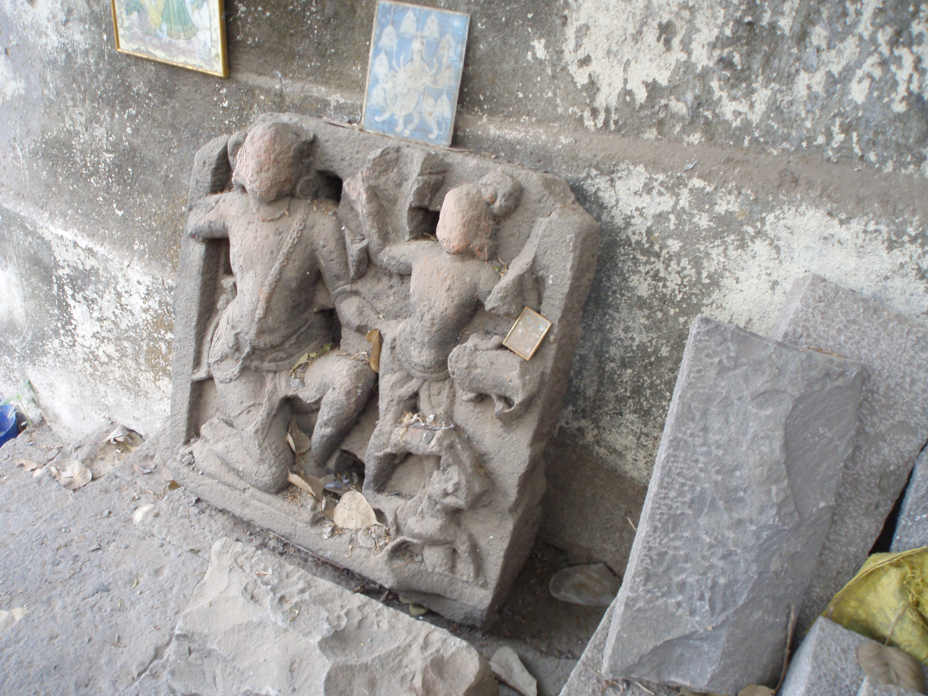 Ancient statues at Walkeshwar, Mumbai, which are no longer used for worship as they are broken.